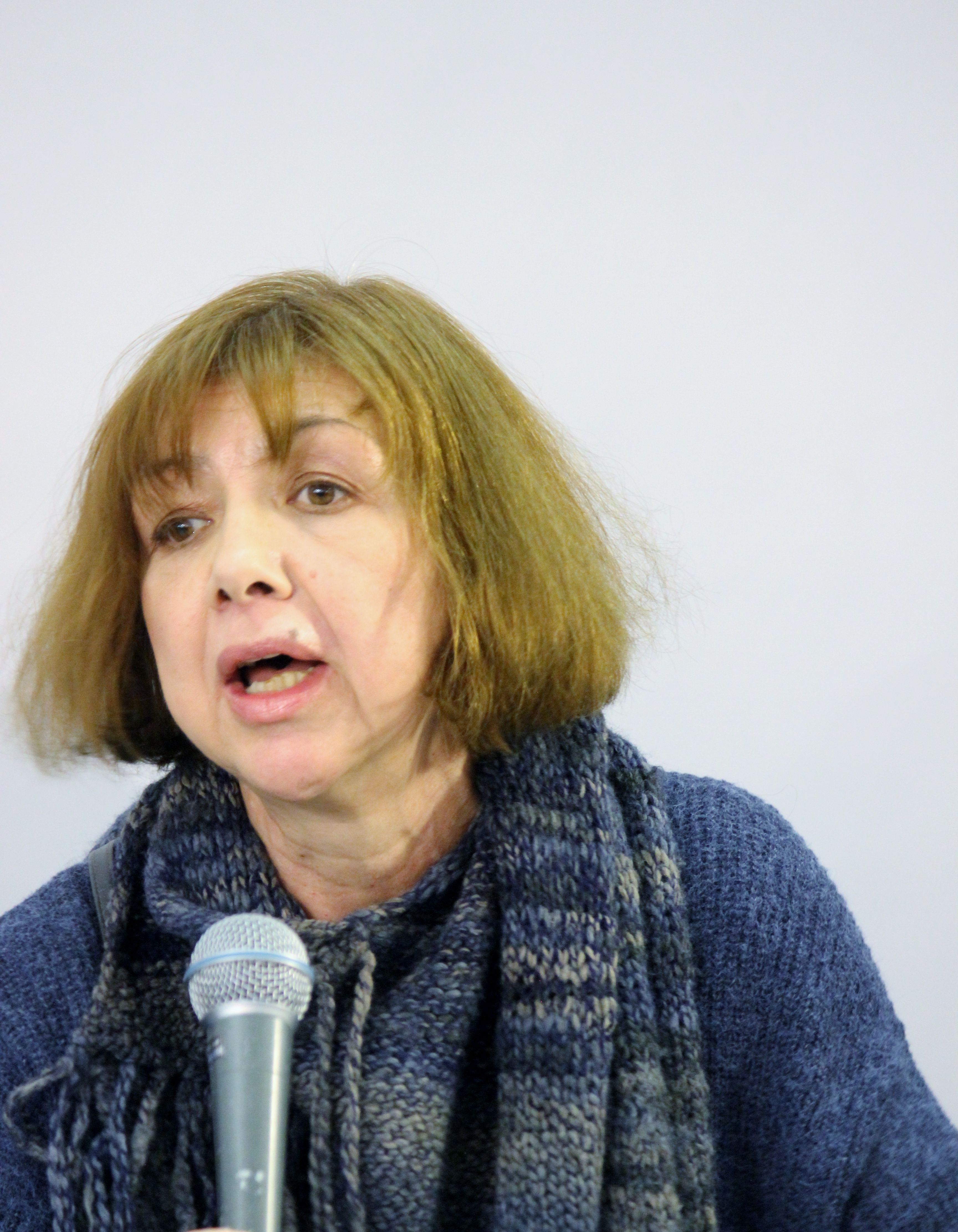 Olga Zdravomyslova, Executive Director of the Gorbachev Foundation, during the presentation of the Russian translation of William Taubman's book Gorbachev: His Life and Times at the 20 Moscow International Fair Non/fiction 2018